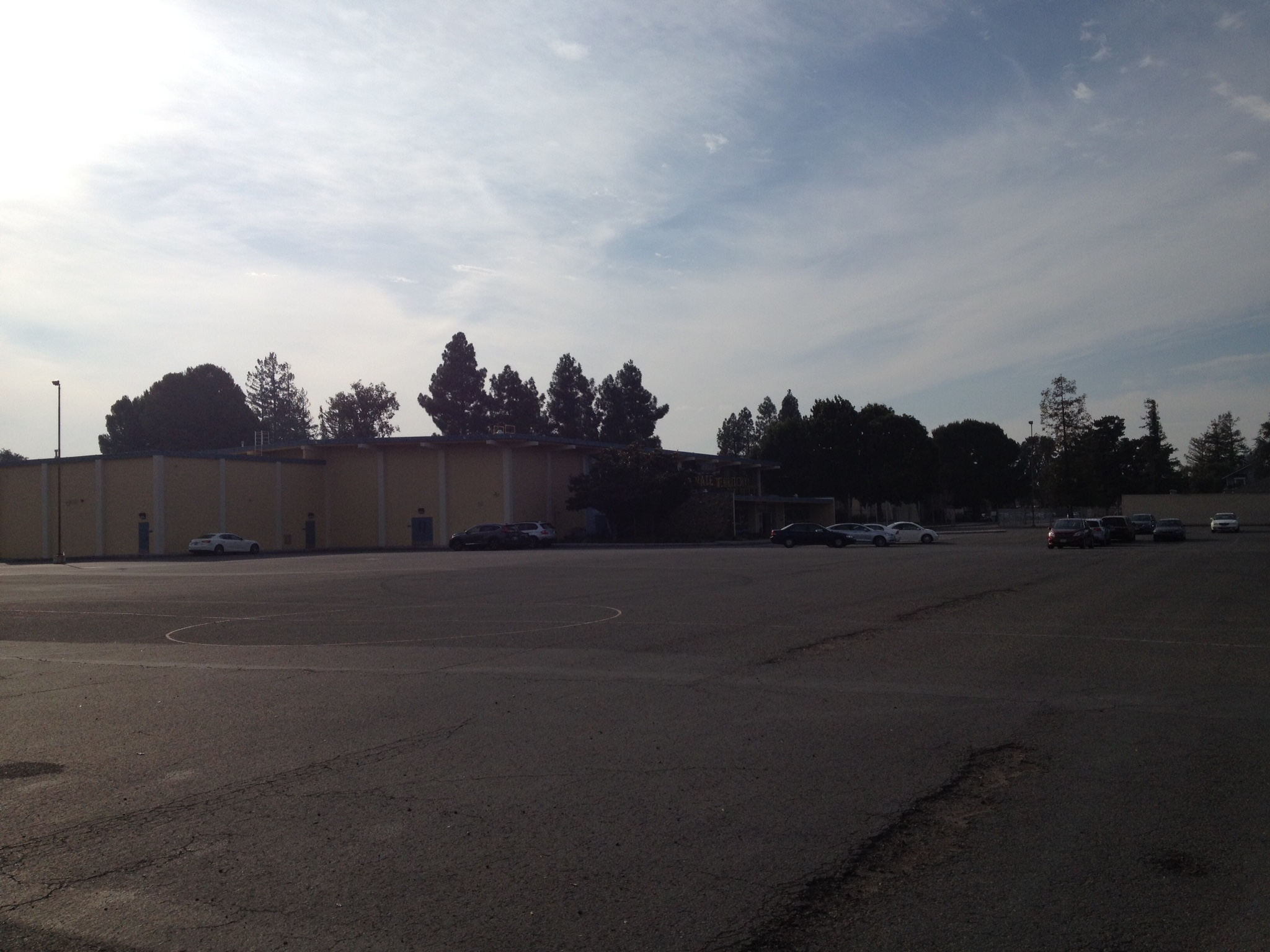 Peterson Middle School's Big Parking Lot, at around 1:30 PM on a cloudy day.